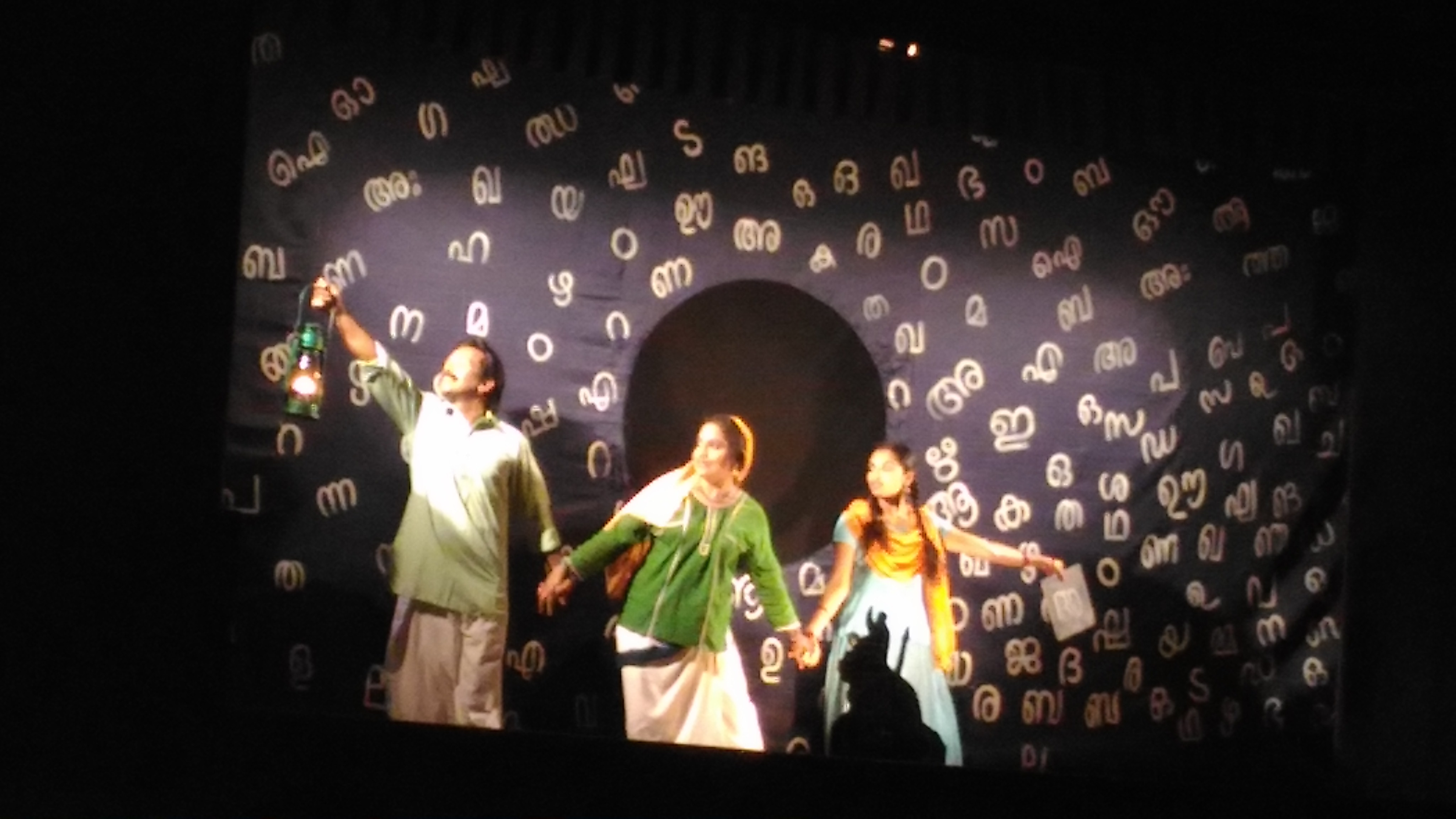 A scene from the drama Ntuppuppkoranentarnnu_basheer